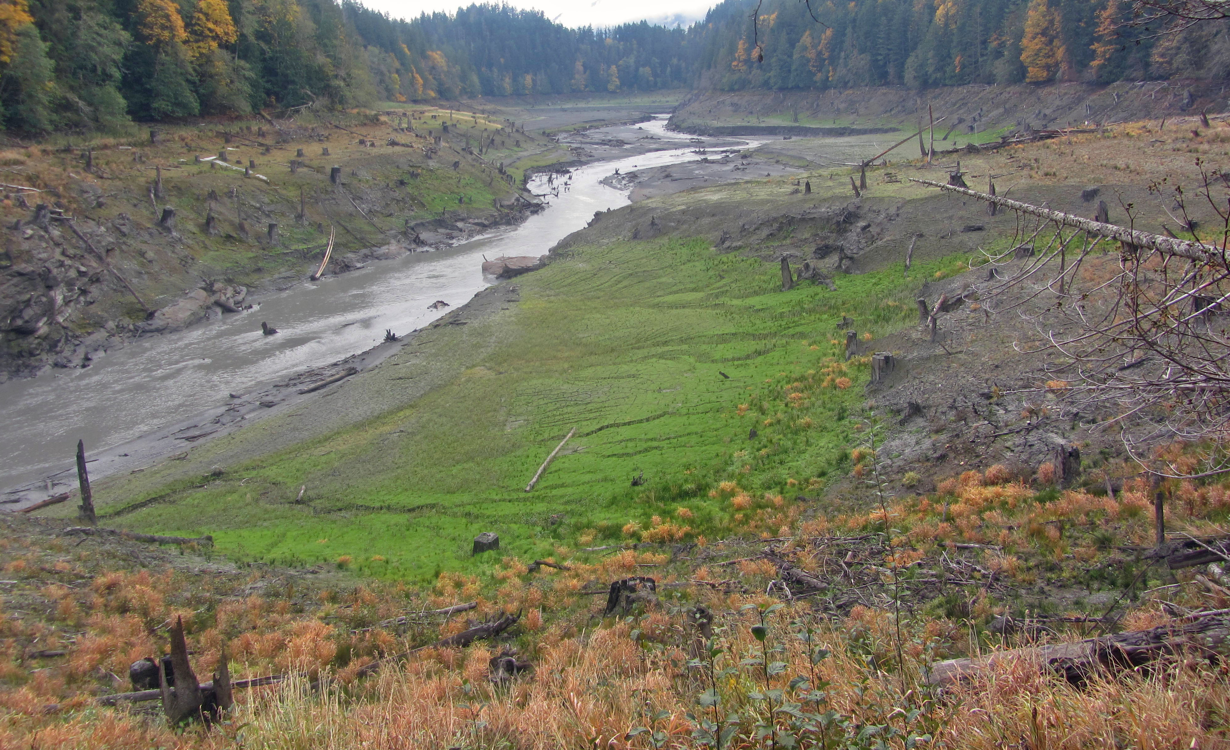 Lake Aldwell following removal of Elwha Dam.